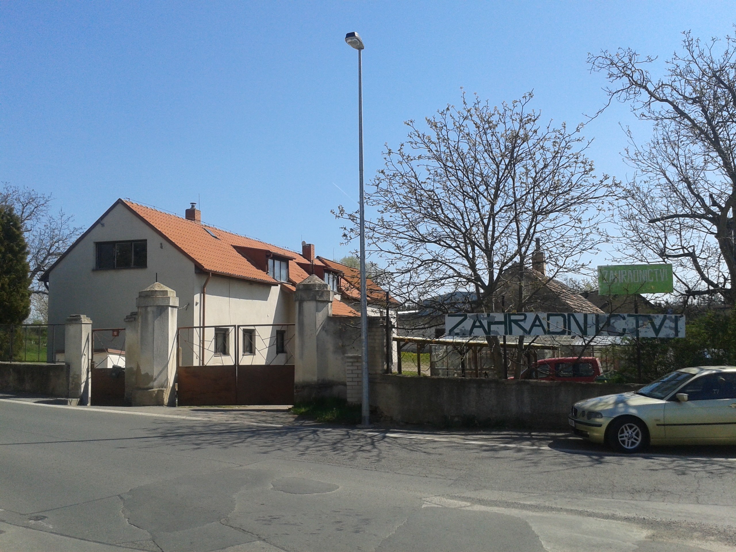 Junek Gardening in one of the old homesteads that formed the core of the village